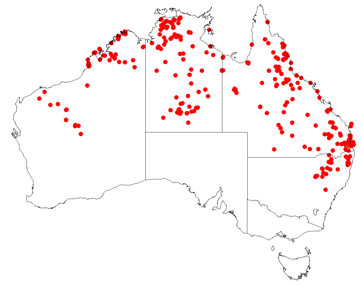 Australian distribution of Amyema bifurcata based on download from Australasian Virtual Herbarium May 9, 2018